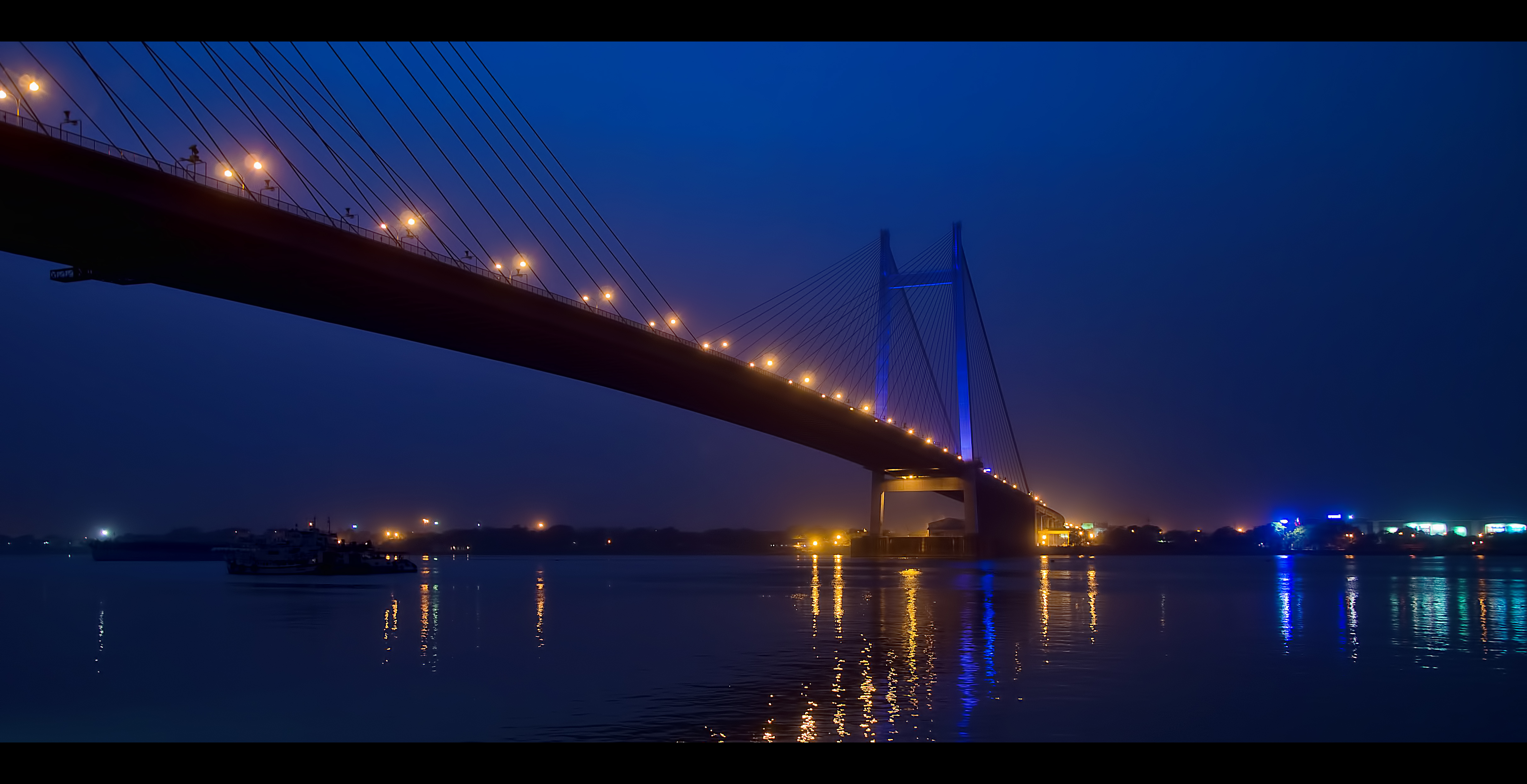 image showing a evening view of Vidyasagar Setu which is also known as Second Hooghly Bridge.....